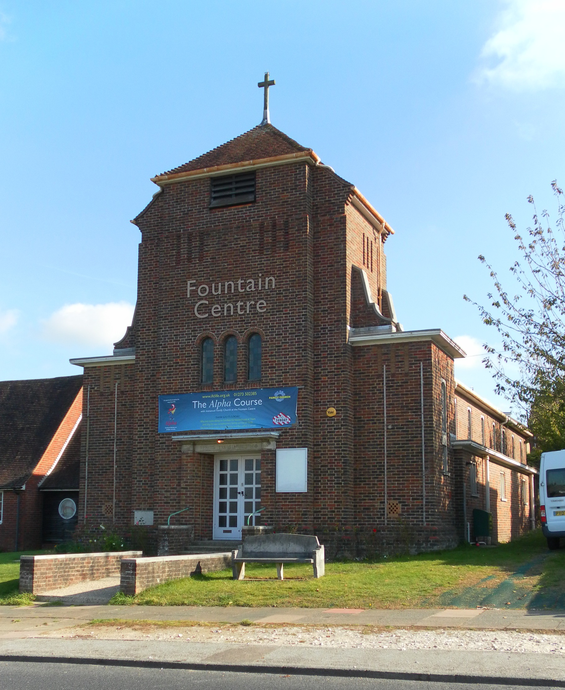 The Fountain Centre, Braybon Avenue, Patcham, City of Brighton and Hove, England, seen from the west. Consecrated in 1958 as the Church of England parish church of Christ the King. Declared redundant and closed in 2006. Bought in 2009 by an Elim Pentecostal congregation, which renamed it the Fountain Centre.